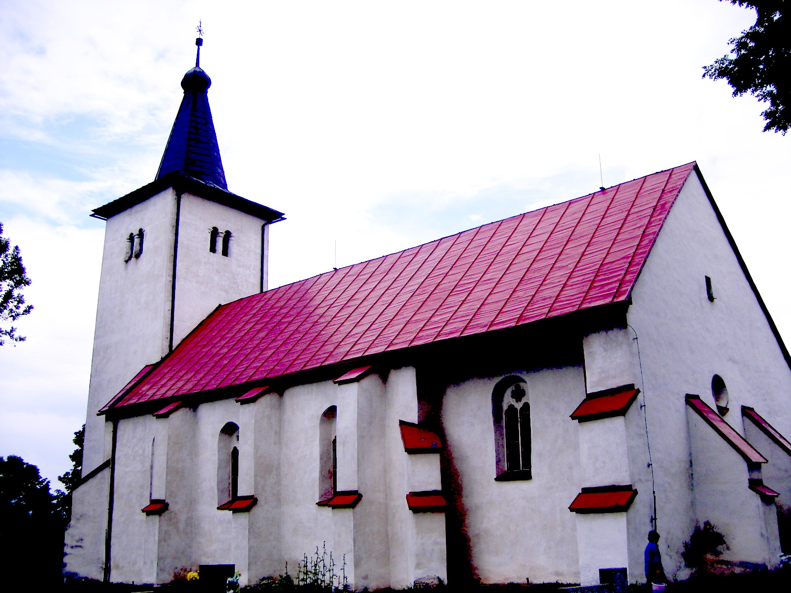 Dražkovce - catholic church